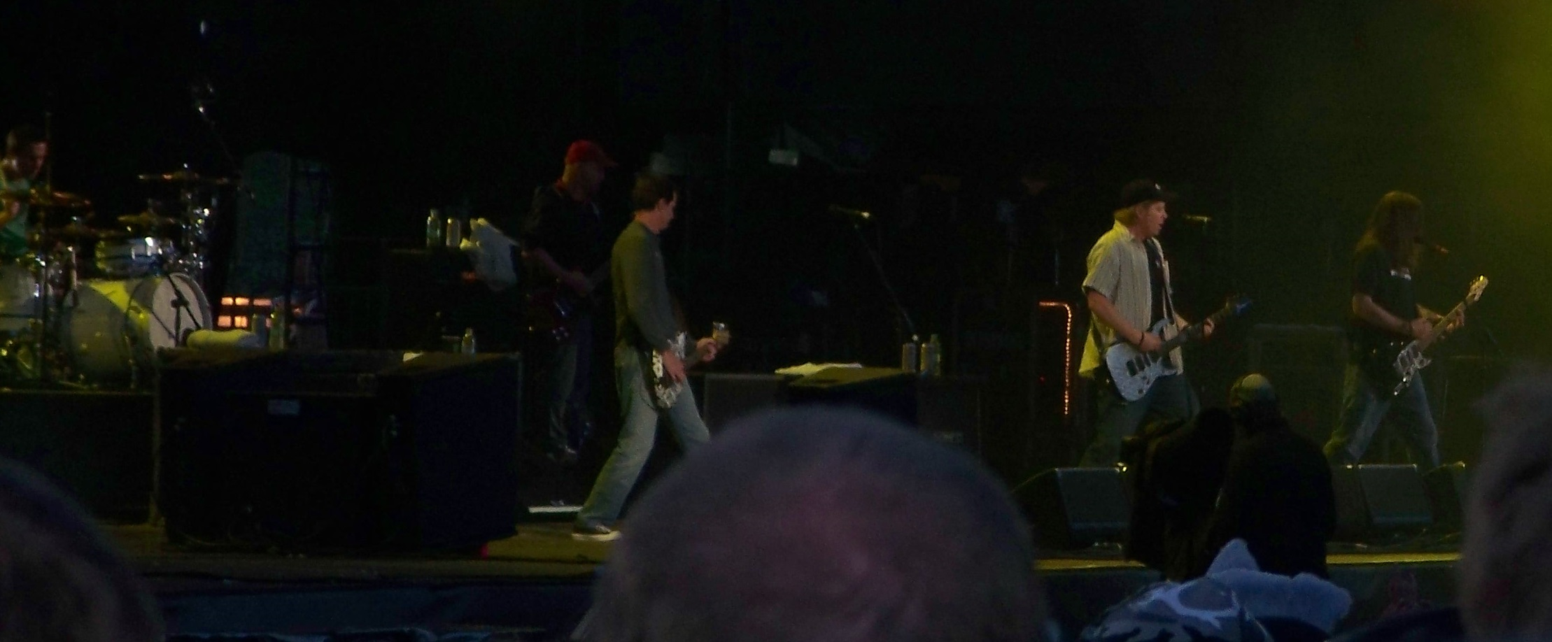 The Offspring at Download 2008